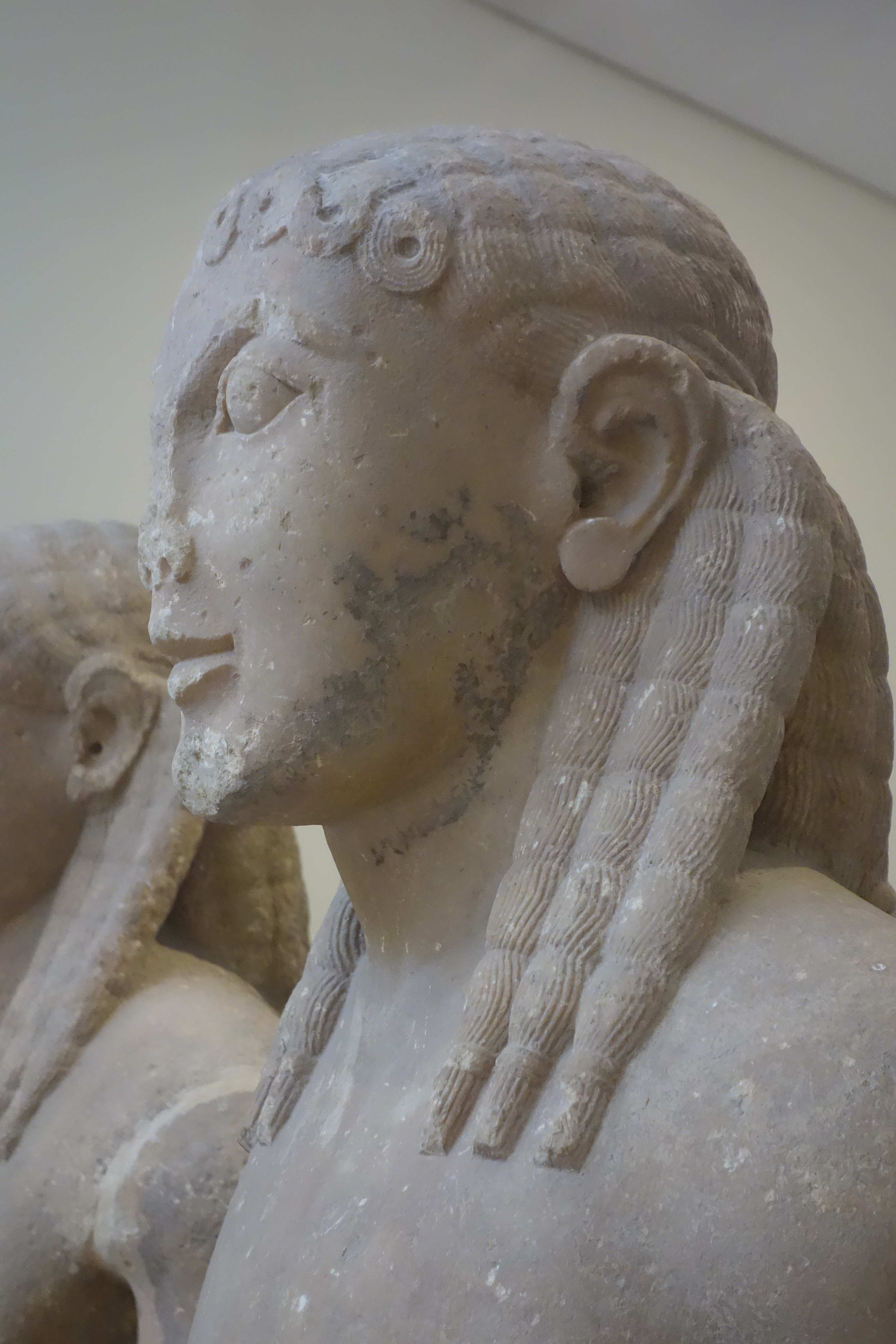 Statues of Kleobis and Biton (detail)